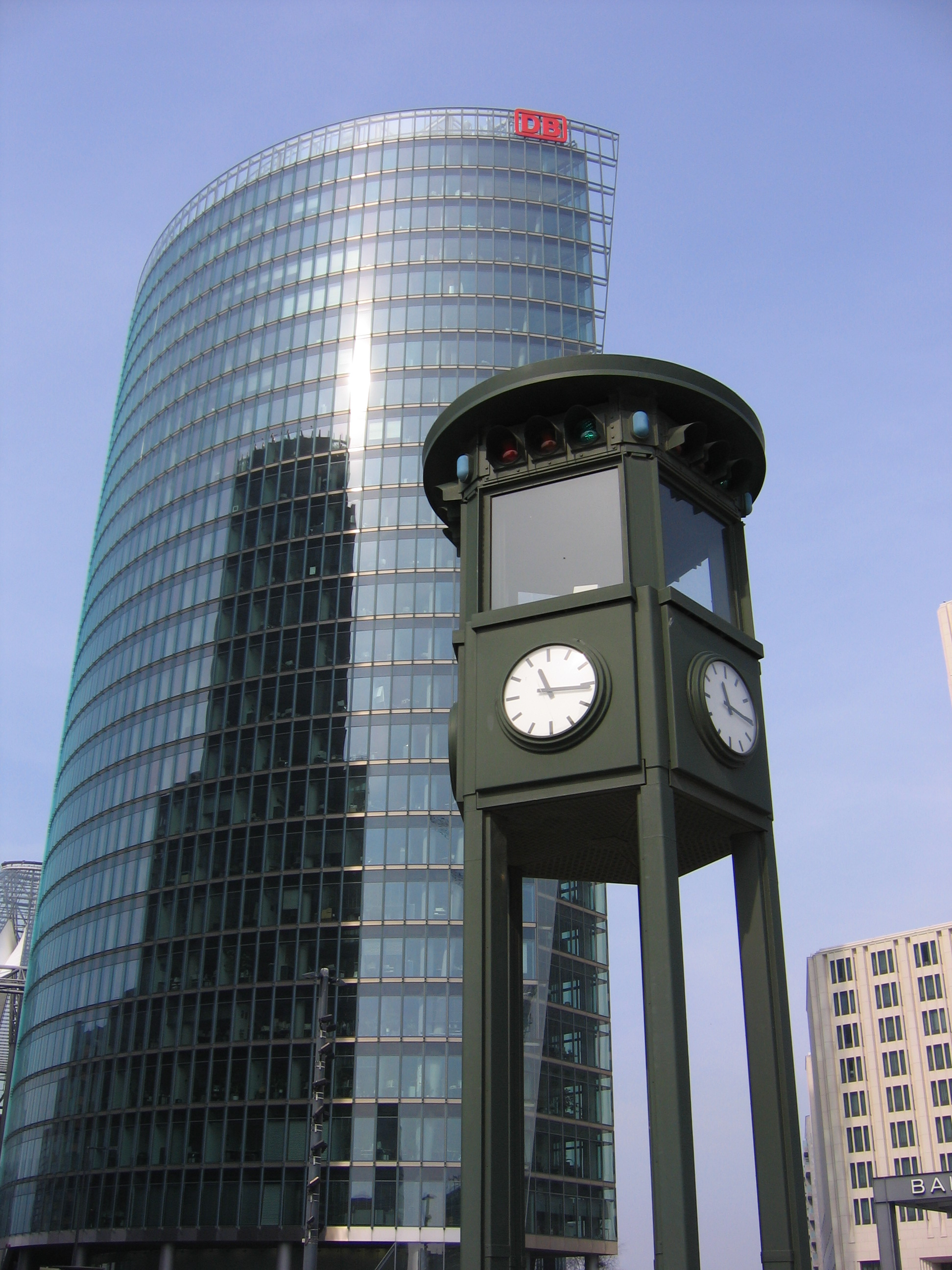 Potsdamer Platz Replica of the traffic tower of 1924